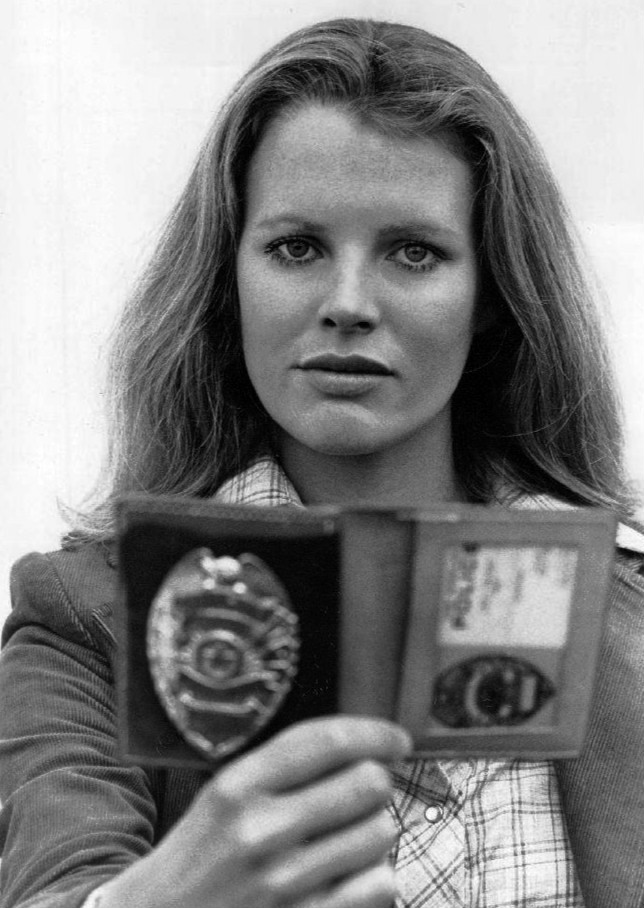 Publicity photo of Kim Basinger as J.Z. Kane from the television program Dog and Cat. This is a photo from the program's premiere. The show began in July 1977 and only 6 episodes of it were aired.